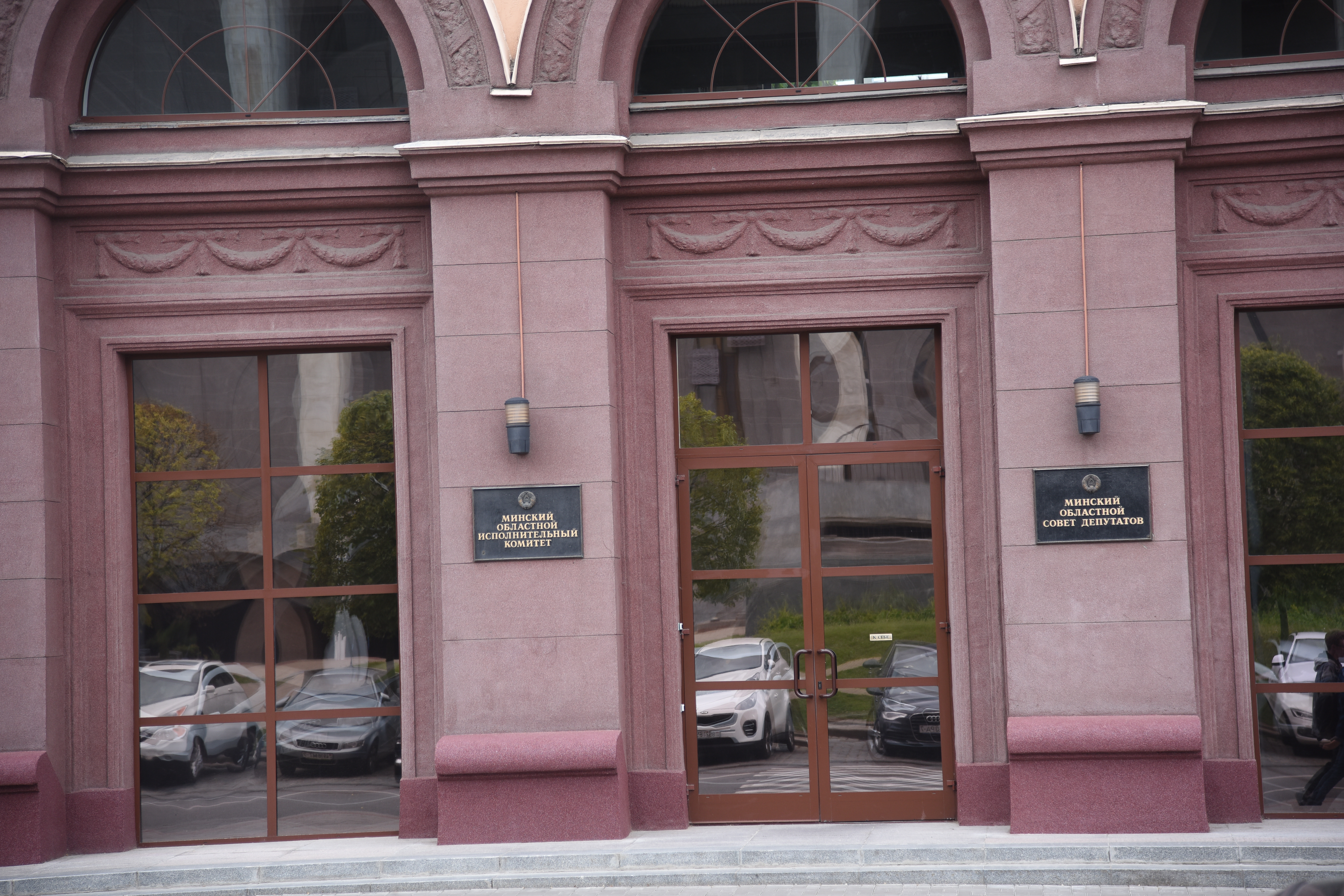 Minsk Oblast Council of Deputies and Minsk Oblast Executive Committee building at Engels 4